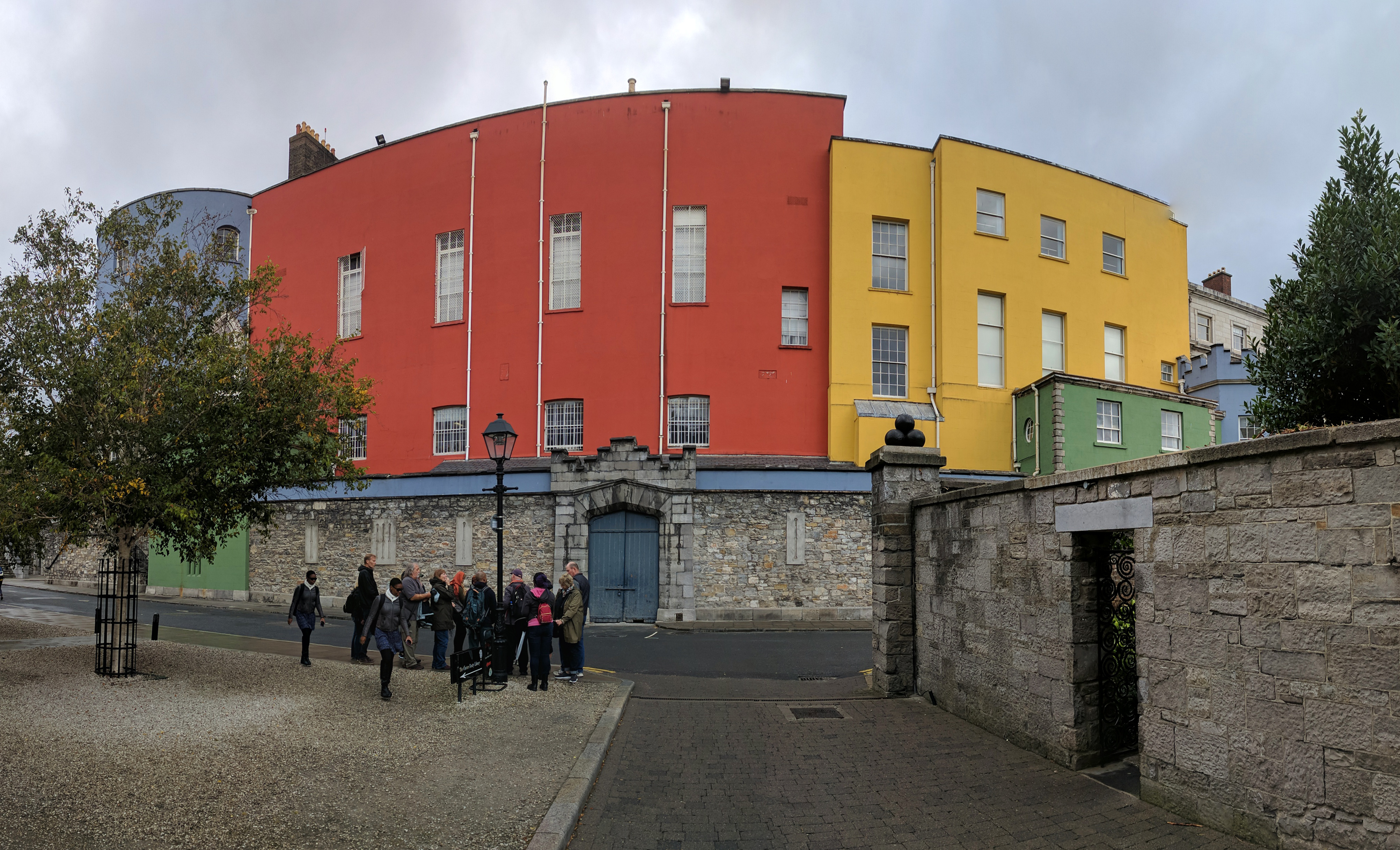 The west part of the south outside wall of Dublin Castle includes these colorfully painted buildings.